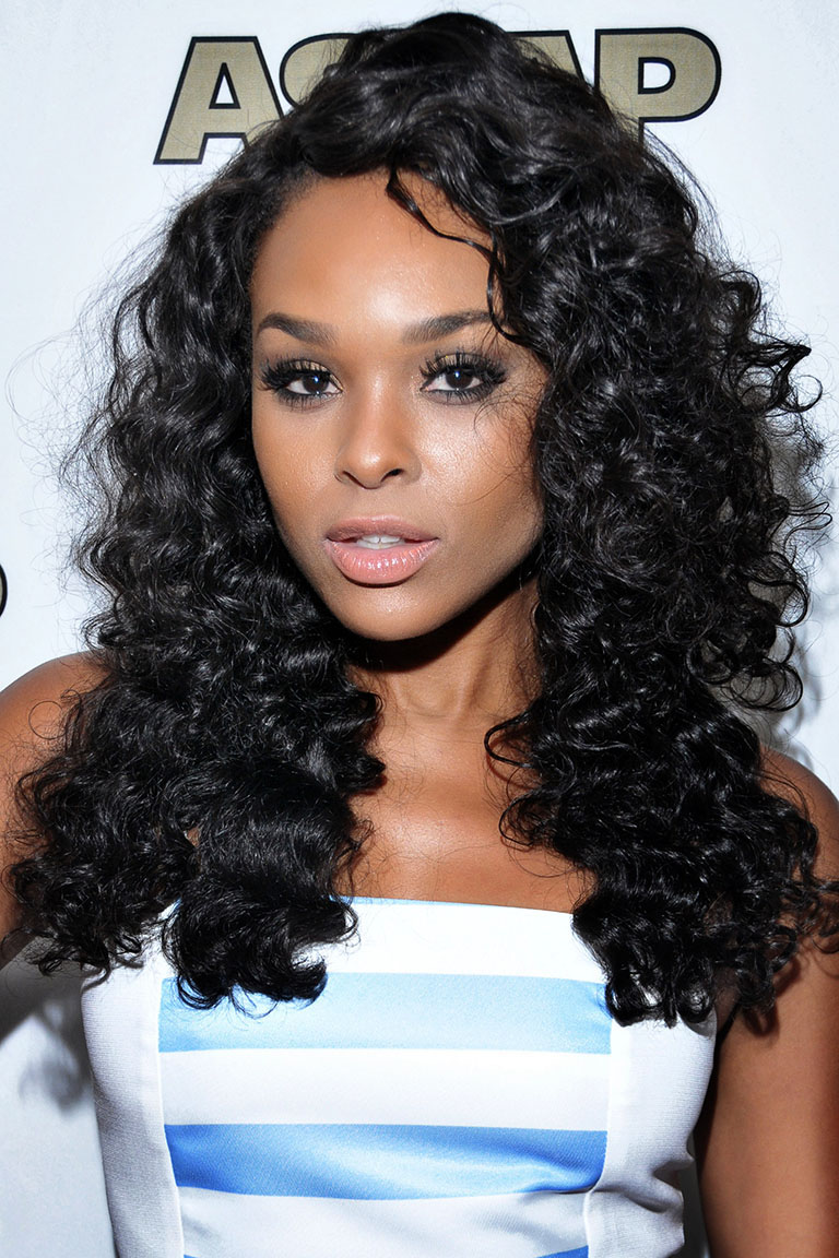 Demetria McKinney, Beverly Hills, California on June 25, 2015 - Photo by Glenn Francis of